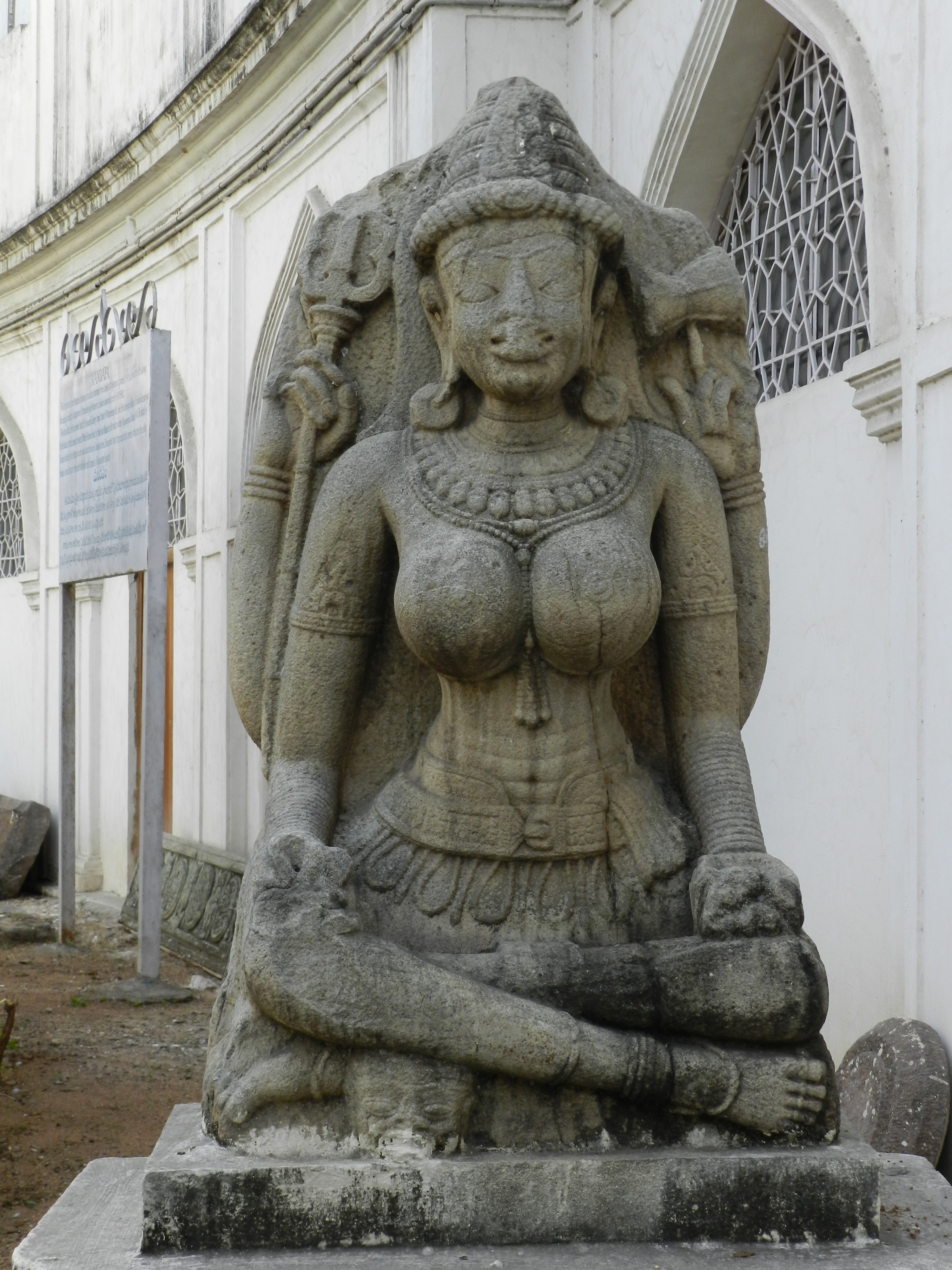 YSR State arch museum - Chaamundi